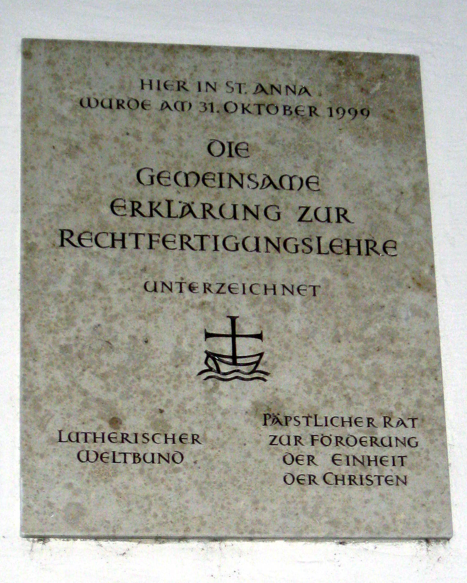 Plaque Rechtfertigungslehre